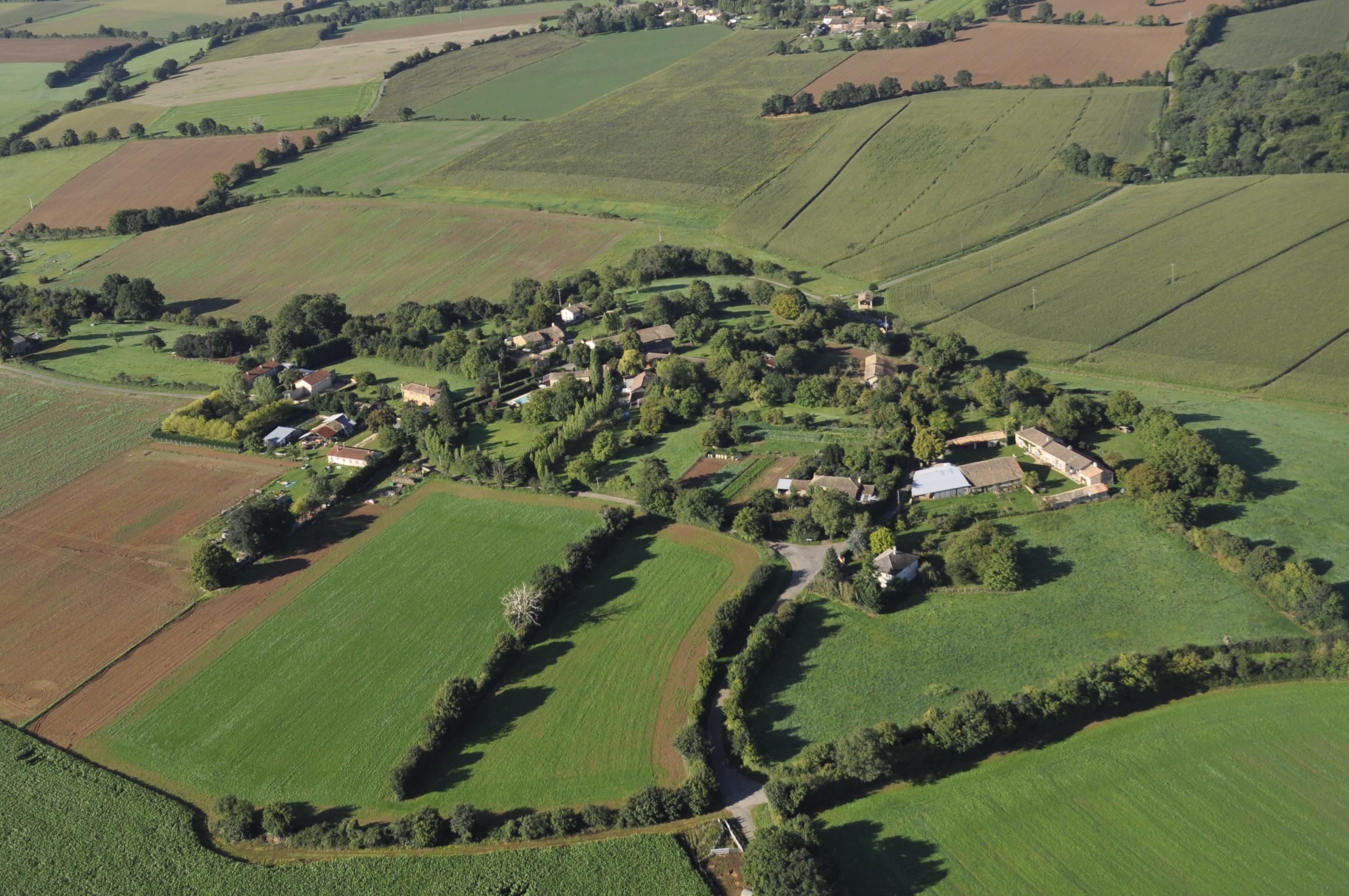 Huric from the air